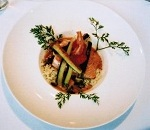 Meal made by PICA culinary arts students